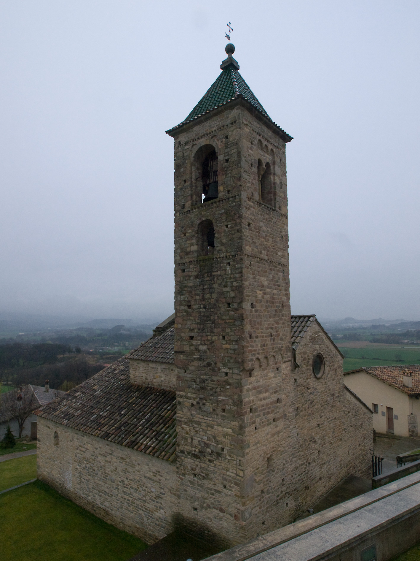 Sant Vicenç church of Malla (Catalonia, Spain)